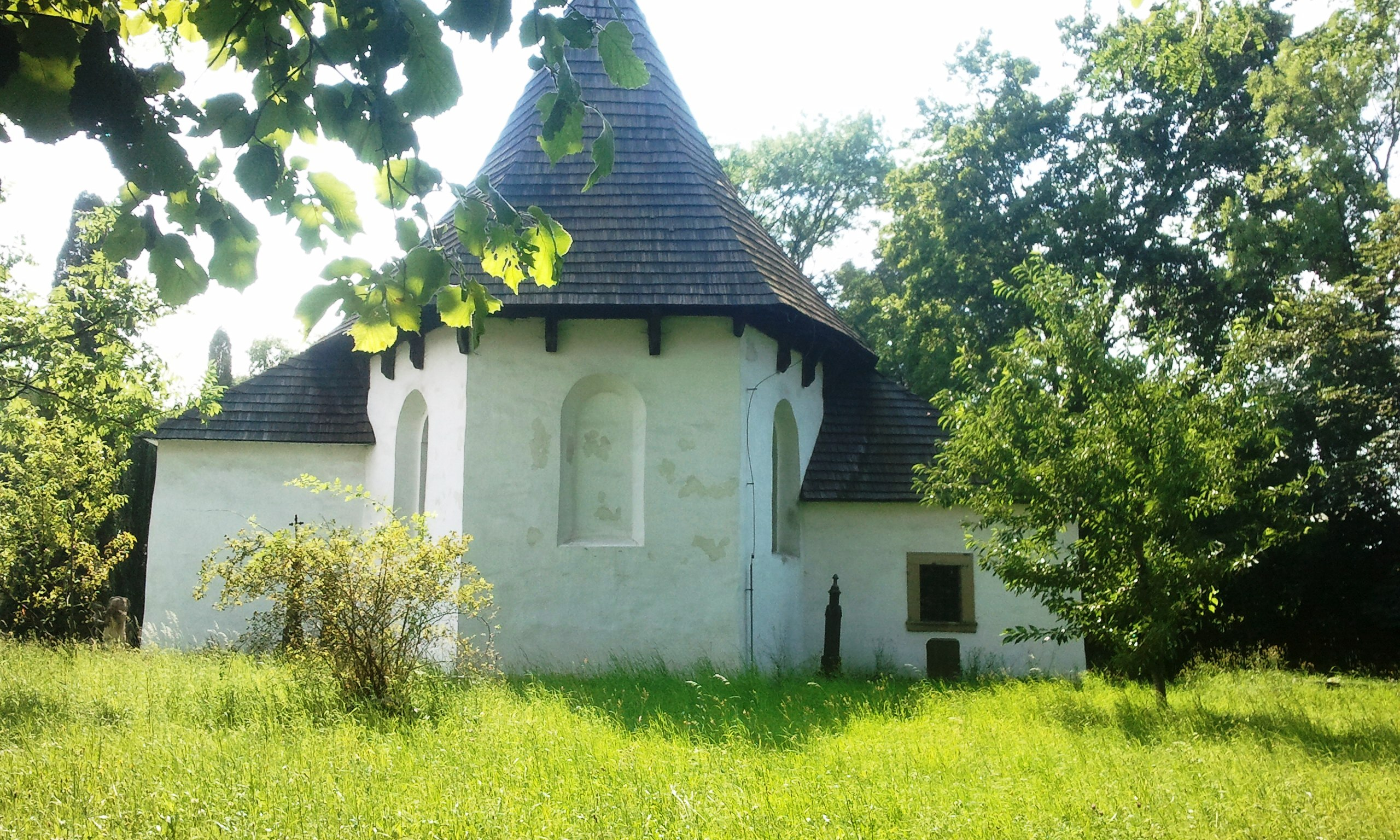 Holy Trinity Church in Valašské Meziříčí, Moravia.